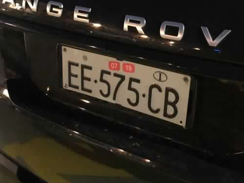 This file represents a current customs Italian rear license plate; two stickers with month (on the left) and year (on the right) numbers of expiry of the validity are placed at the top